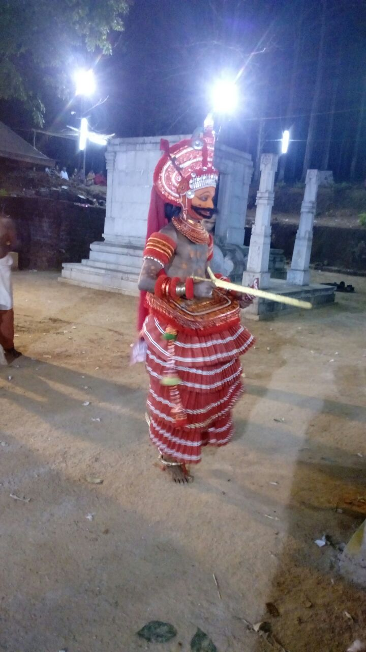 Paittadypoovan theyyam_ Manjadukkam Thulurvanam. Photo: G. Sivadas Rajapuram